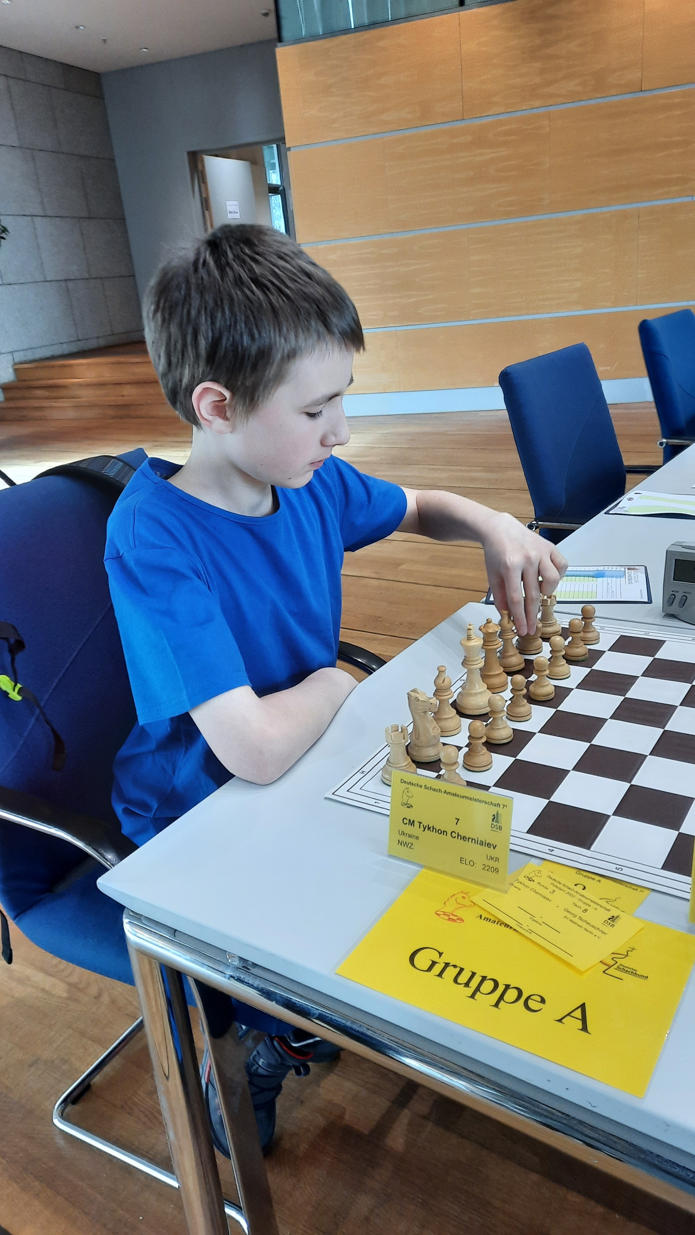 Double World Chess Champion U10 2018